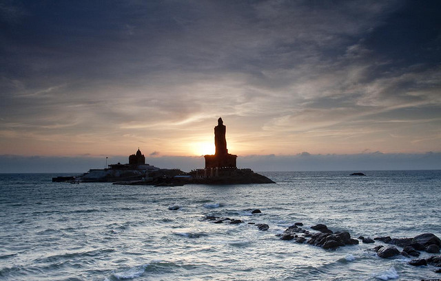 This photograph was taking during the sunrise at Kanyakumari. It is the one of the few spots in the world where you can watch the sunrise and sunset from the same area. Also, this is the southern most tip of India. Generally, I do a lot of research before I go out doing any photography in an area unknown to me. However, this place was an exception. Unfortunately, I did not get any chance to survey the area from where I was going to take the photograph. So, I walked right to this area without knowing where exactly the sunrise will occur. To my surprise, I found out that I was with 10,000-20,000 people who were there to worship the sun in the morning. Majority of these people were pilgrims traveling around south part of India before going to Sabarimala temple. Despite of the fact that this place was overflowing with people, I found a good location and was able to set up my tripod. I was amazed how people gave me space so that I could set up my tripod and they do not accidently run into it. I used LEE hard grad filters 0.3 and 0.6 together to bring out the sky while maintaining the color of the water. I have done very minimum enhancement to this photograph in Lightroom. Here are additional details: Canon 50D with17-40mm Lens Shutter speed: 1/20 Aperture : 9 ISO 100 NO HDR! Lee hard edge filter 0.3 and 0.6 handheld